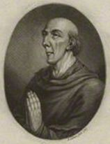 A mezzotint of William II Canynges (c. 1399–1474), in clerical robes. Originally an English merchant and shipper from Bristol who one of the wealthiest private citizens of his day, Canynges took up clerical orders following the death of his wife Joan Burton in September 1467.